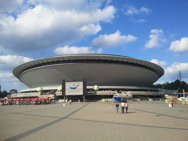 Spodek 2011